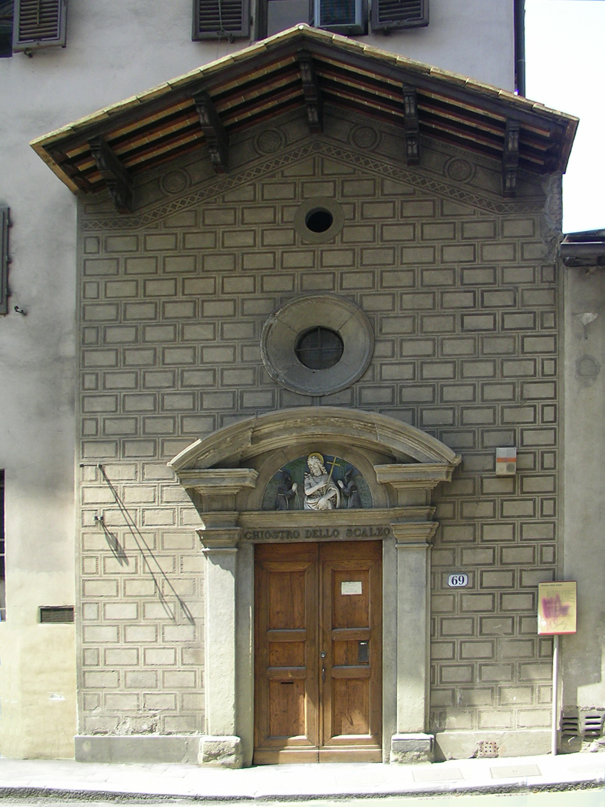 Chiostro dello Scalzo museum front view. In Florence, Italy.